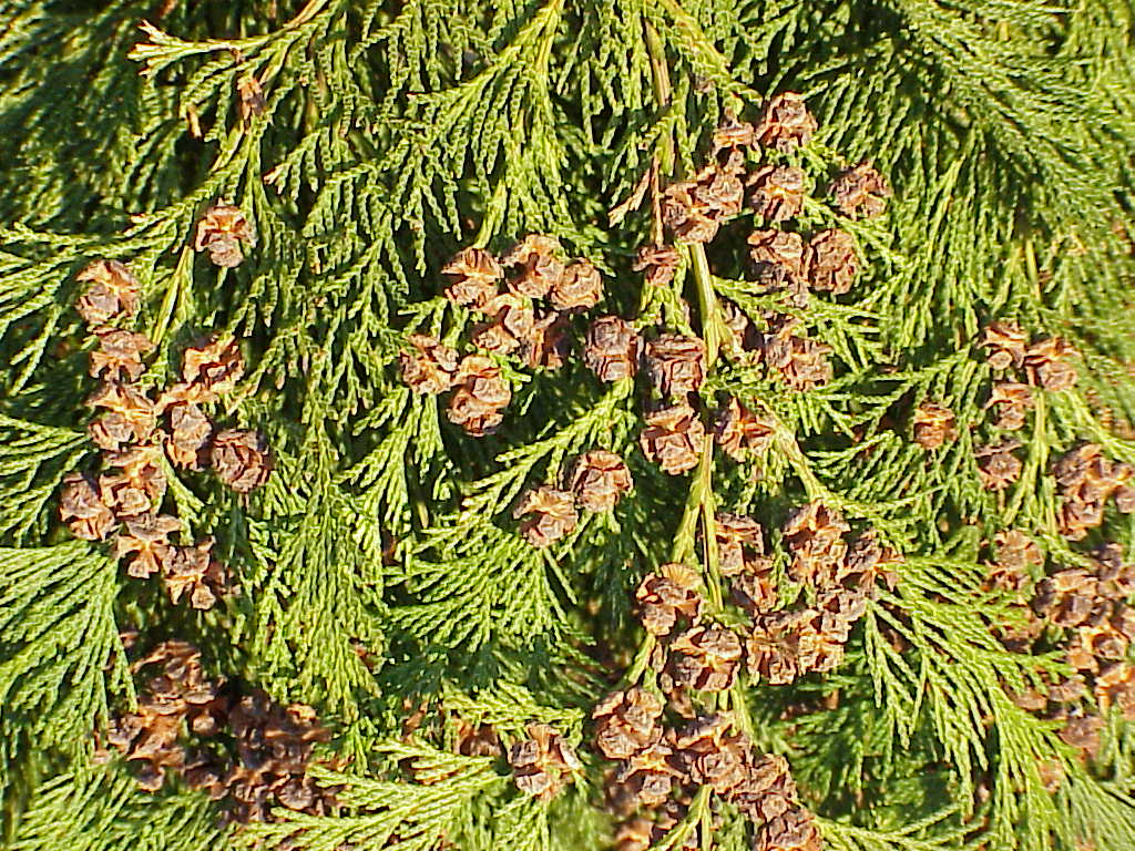 Species: Chamaecyparis lawsoniana Family: Cupressaceae Image No. 1